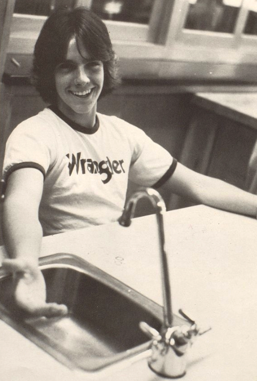 Robert Jerome Piest (1963-1978) as a high school freshman